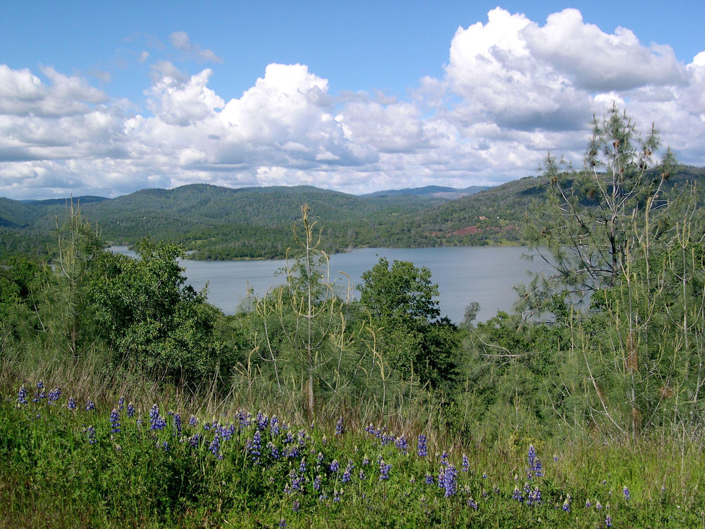 Collins Lake, Spring 2004